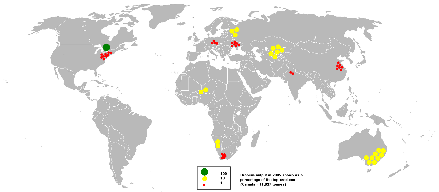 This bubble map shows the global distribution of uranium output in 2005 as a percentage of the top producer (Canada - 11,627 tonnes). This map is consistent with incomplete set of data too as long as the top producer is known. It resolves the accessibility issues faced by colour-coded maps that may not be properly rendered in old computer screens. Data was extracted on 29th May 2007. Source - Based on Image:BlankMap-World.png